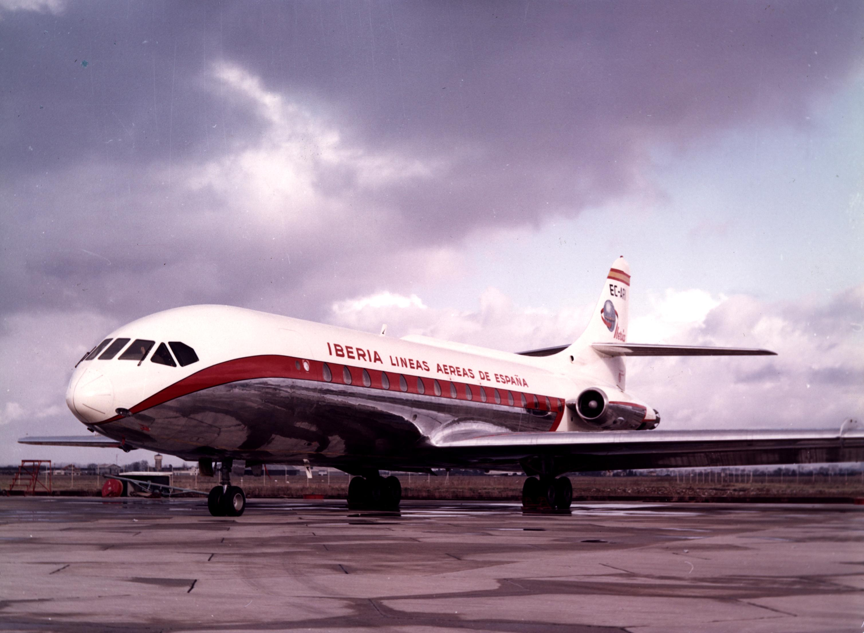 Sud Est SE.210-6R Caravelle c/n 107 Historical data / Données historiques: First flight: 21.1.1962 (F-WJAL) Delivered to IBERIA as EC-ARI on 5.6.1962 Painted and named "Isaac de Albeniz" on March 1962 Sold to AVIACO on 4.6.1973 WFU at Madrid on 5.8.1975 Sold to TAC Colombia on march 1976 Used for spares Broken up in March 1977